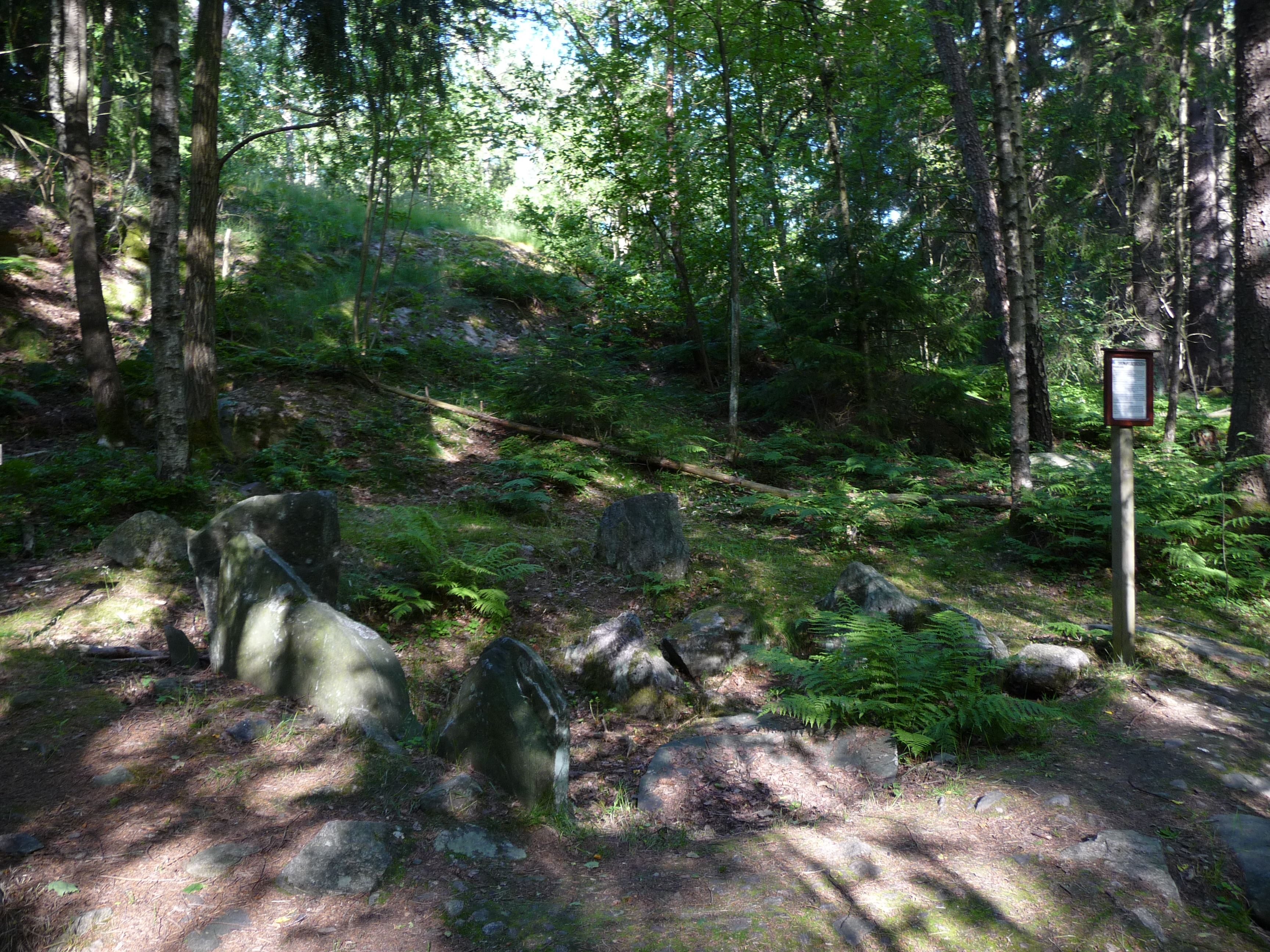 Cist grave on Safjället